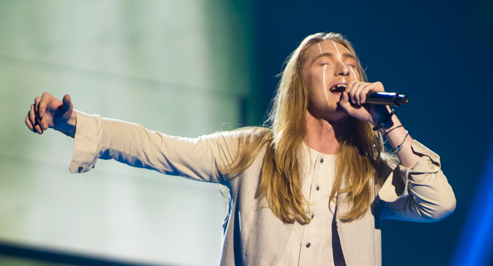 Ivan representing Belarus with the song "Help You Fly" during a rehearsal before the second semi final of the Eurovision Song Contest 2016 in Stockholm. (Help translate this text)